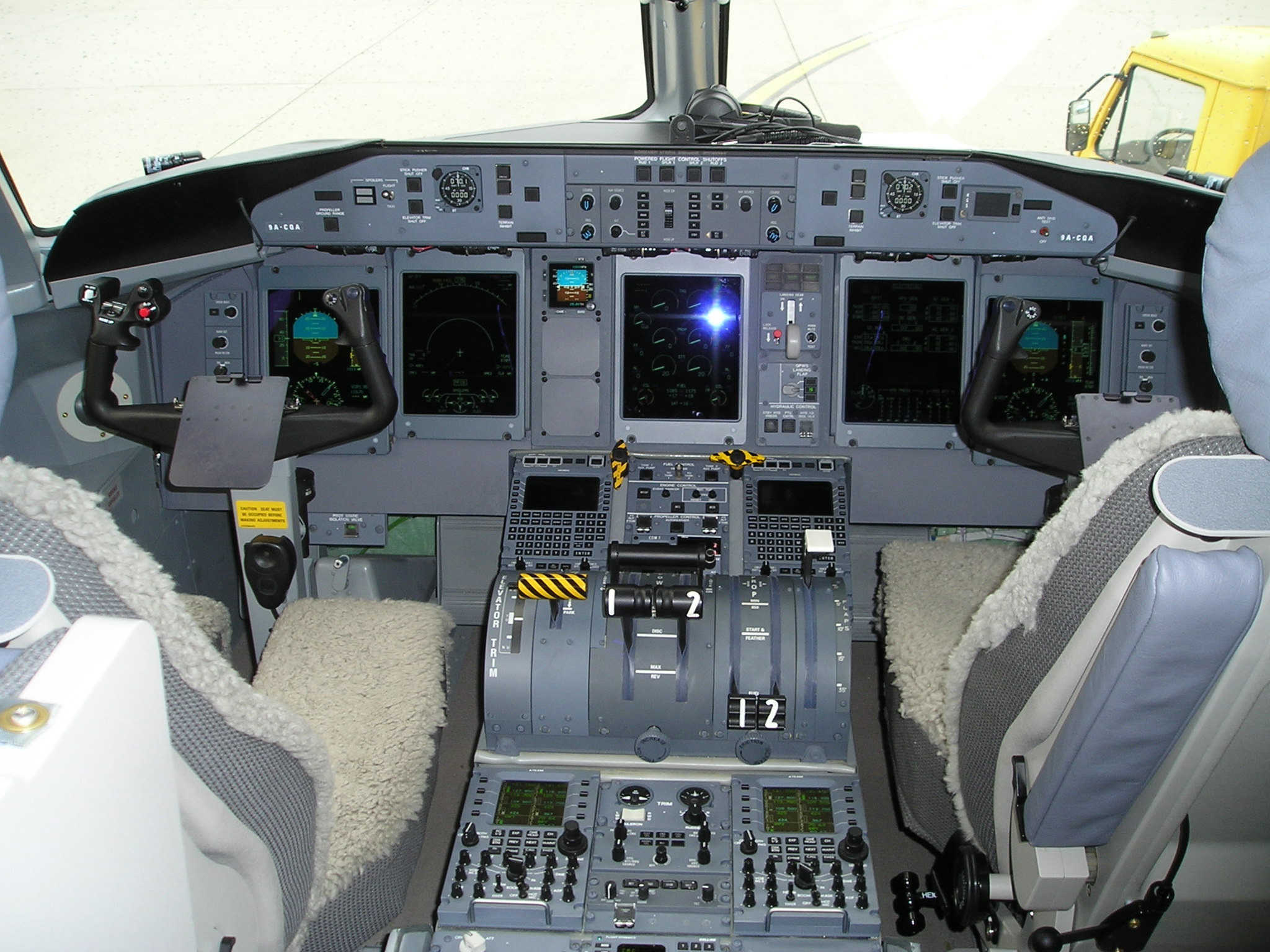 De Havilland Canada DHC-8-402Q Dash (Croatia airlines) cockpit